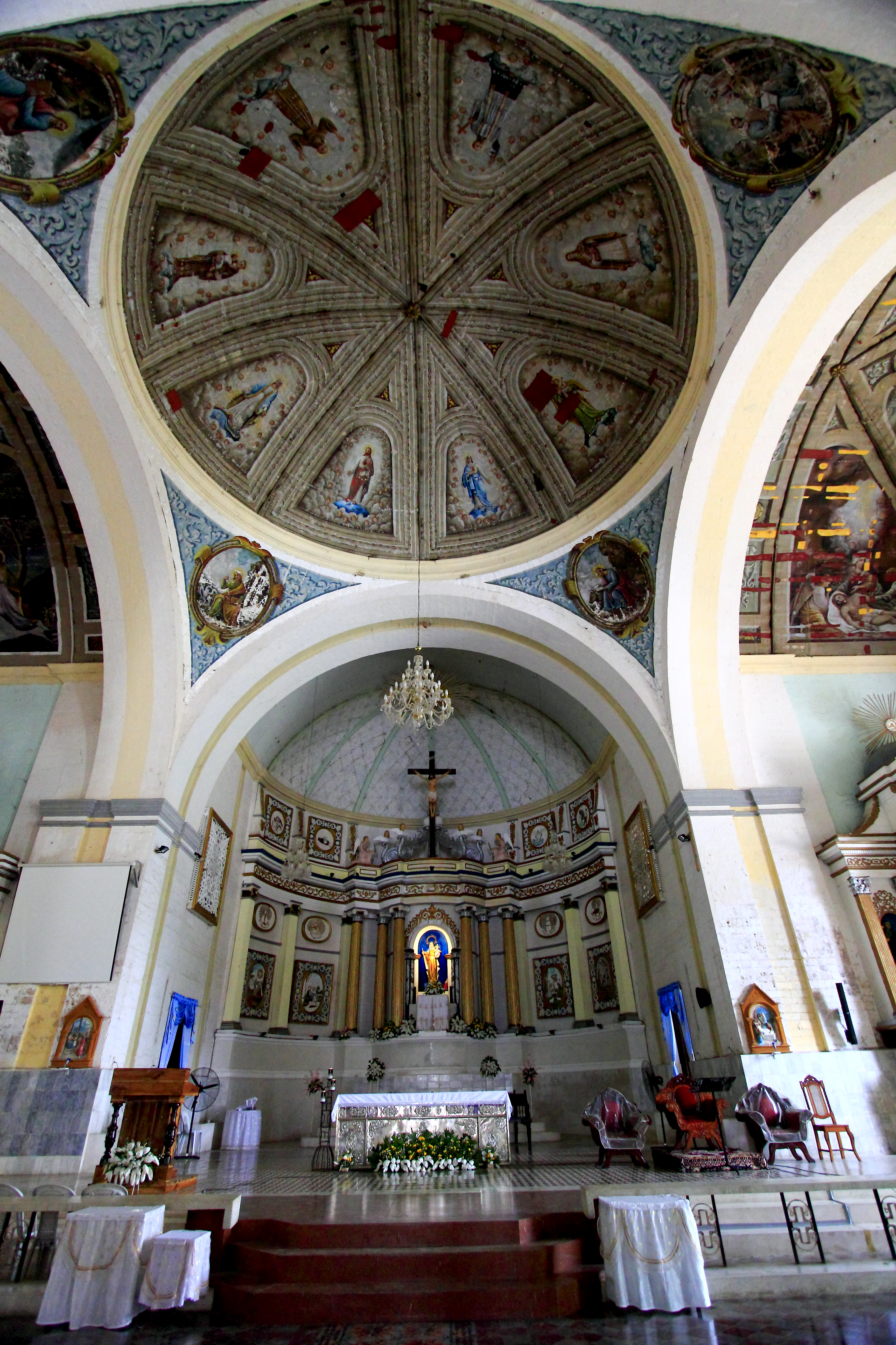 the main altar and the painted dome of the church of loon, bohol